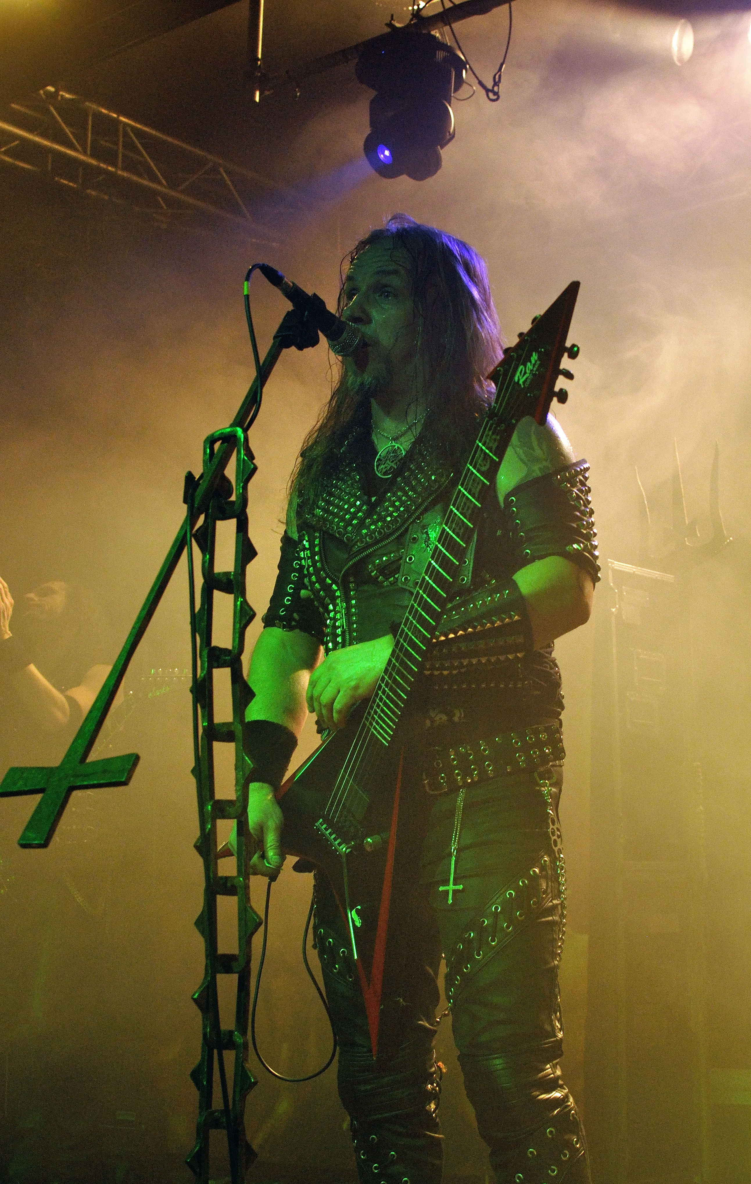 Vader at Hatefest 2015 in Berlin.